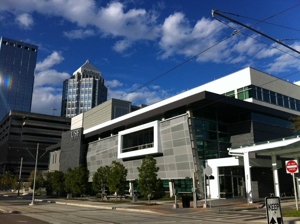 USF CAMLS Center in Tampa.